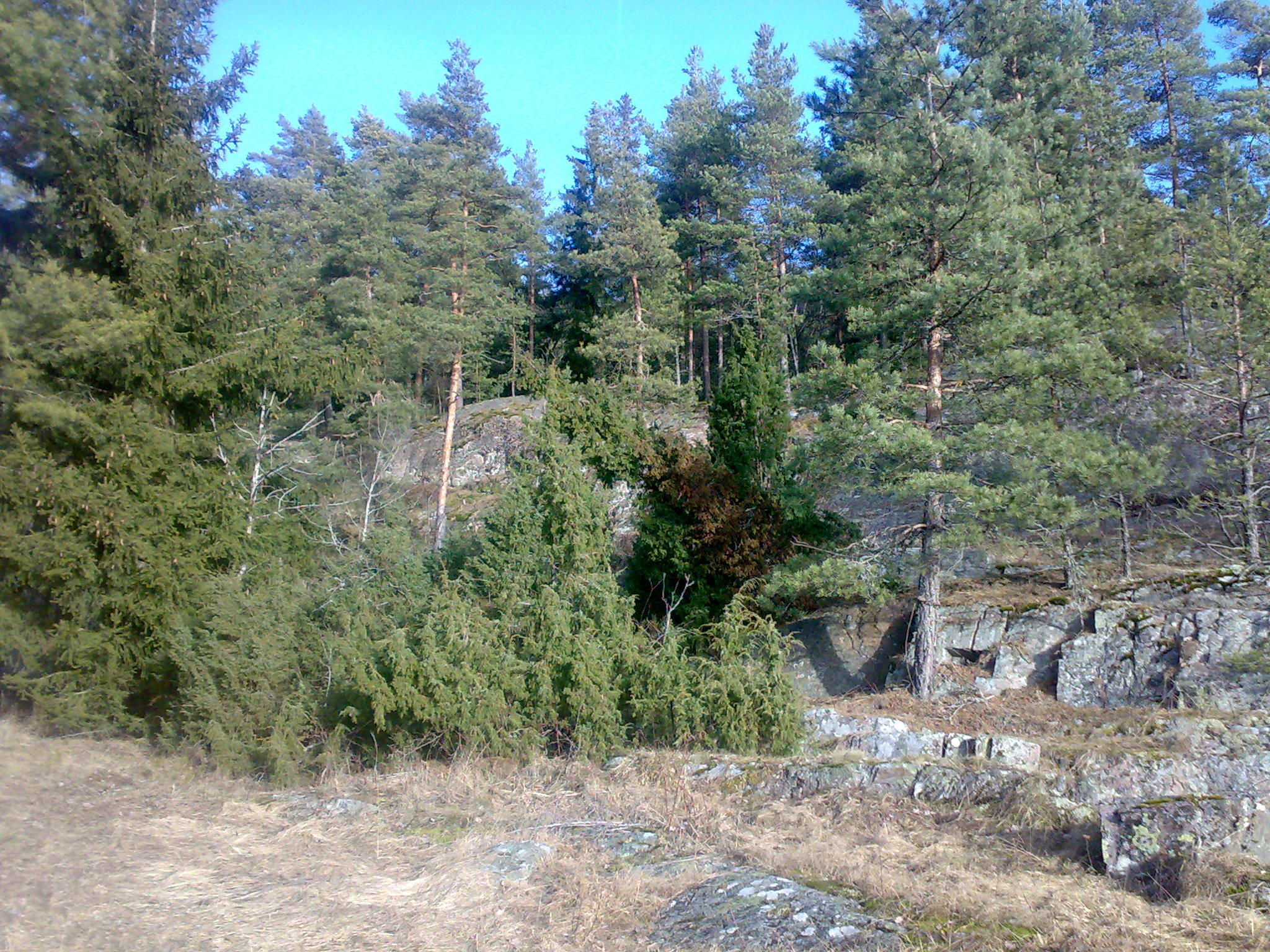 Coastal coniferous wood, Hurum, Norway